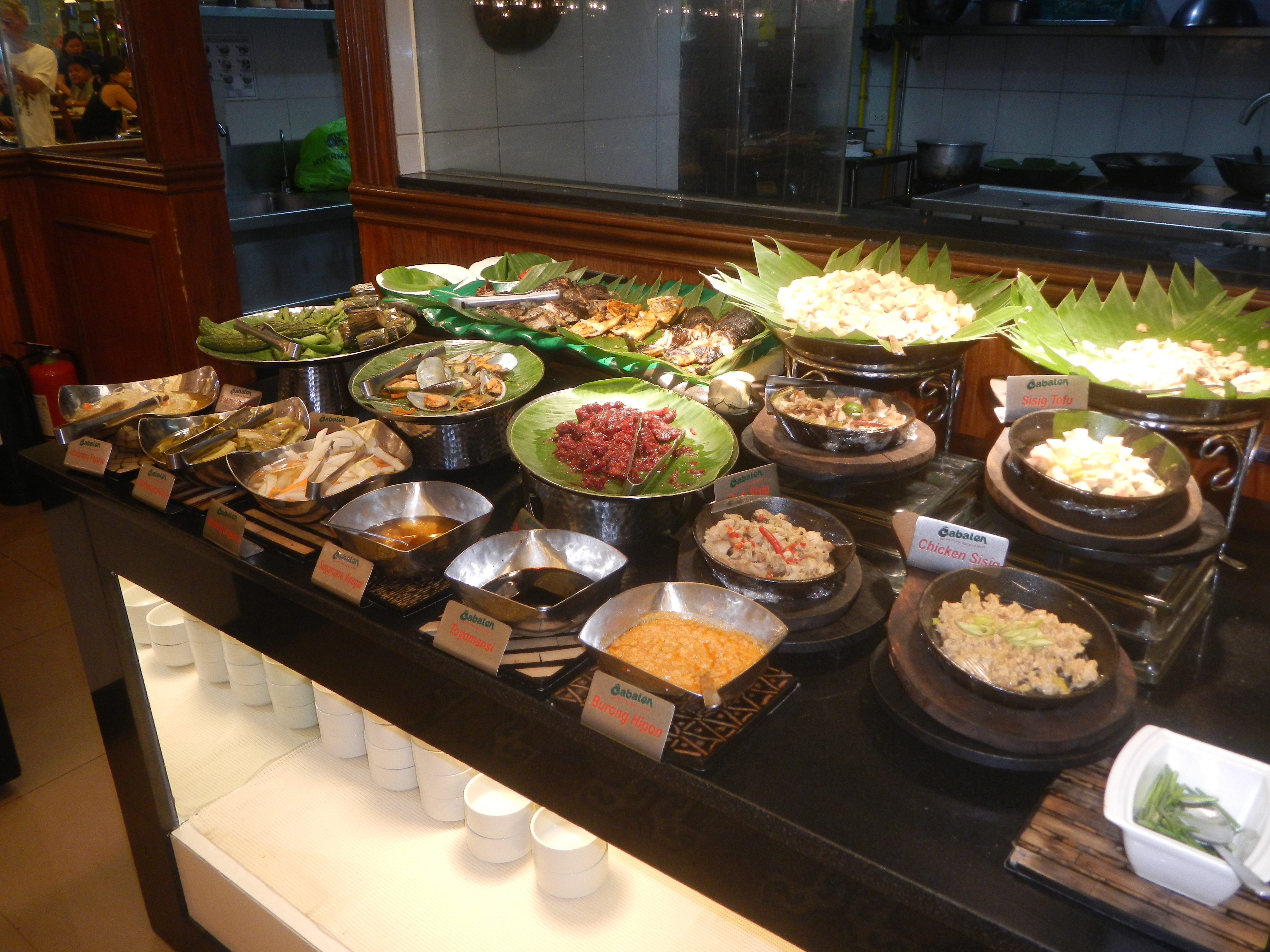 Cabalen List_of_Philippine_restaurant_chains Cabalen food products in the Philippines in SM City Baliuag Barangay Pagala 14°58'14"N 120°53'26"E Baliuag, Bulacan, Bulacan province (accessed from Cagayan Valley Road, Baliuag-Pulilan-Guiguinto, Bulacan) Pan-Philippine Highway, also known as the Maharlika "Nobility/freeman" Highway or Asian Highway 26, Cagayan Valley Road (Note: Judge Florentino Floro, the owner, to repeat, Donor Florentino Floro of all these photos hereby donate gratuitously, freely and unconditionally all these photos to and for Wikimedia Commons, exclusively, for public use of the public domain, and again without any condition whatsoever).